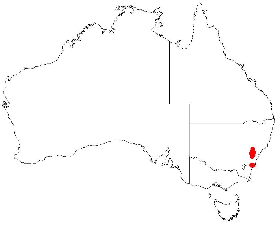 Hakea pachyphylla Occurrence data downloaded from Australasian Virtual Herbarium on 22 November 2018 using